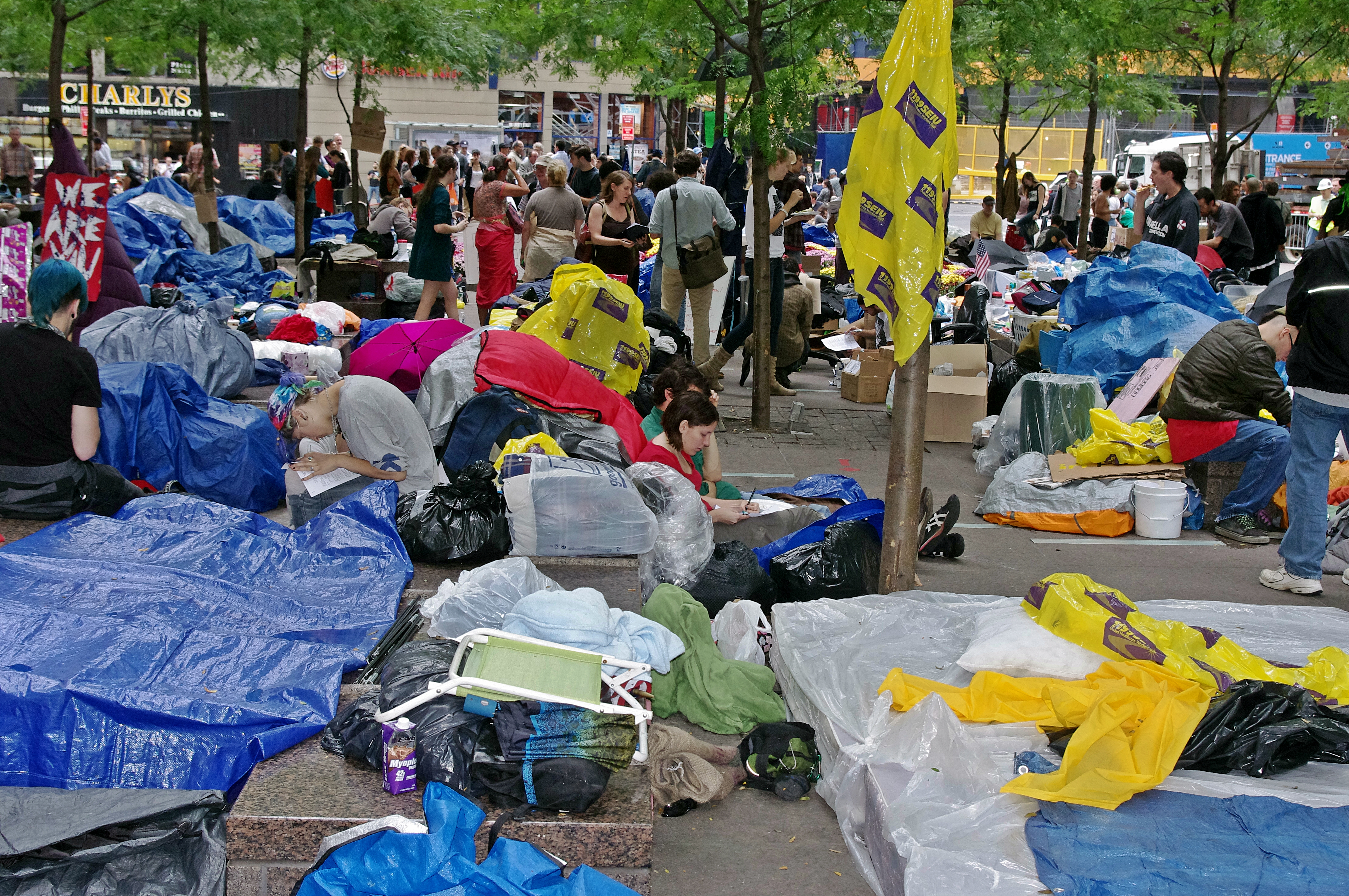 Wednesday, Day 12, September 28 and New York's financial district Wall Street remains barricaded to the public and tourists alike. Occupy Wall Street has effectively shut down the main strip of the financial district. Photos from Zuccotti Park, September 28 2011.